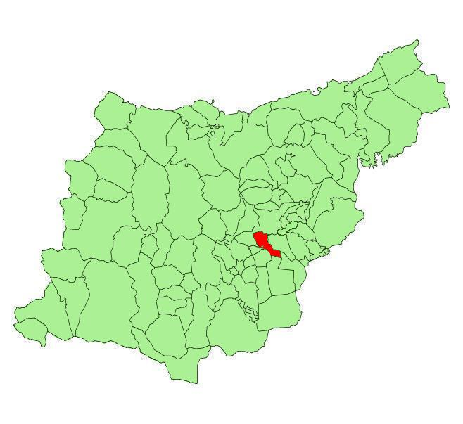 Alegia municipality in the province of Guipuzcoa